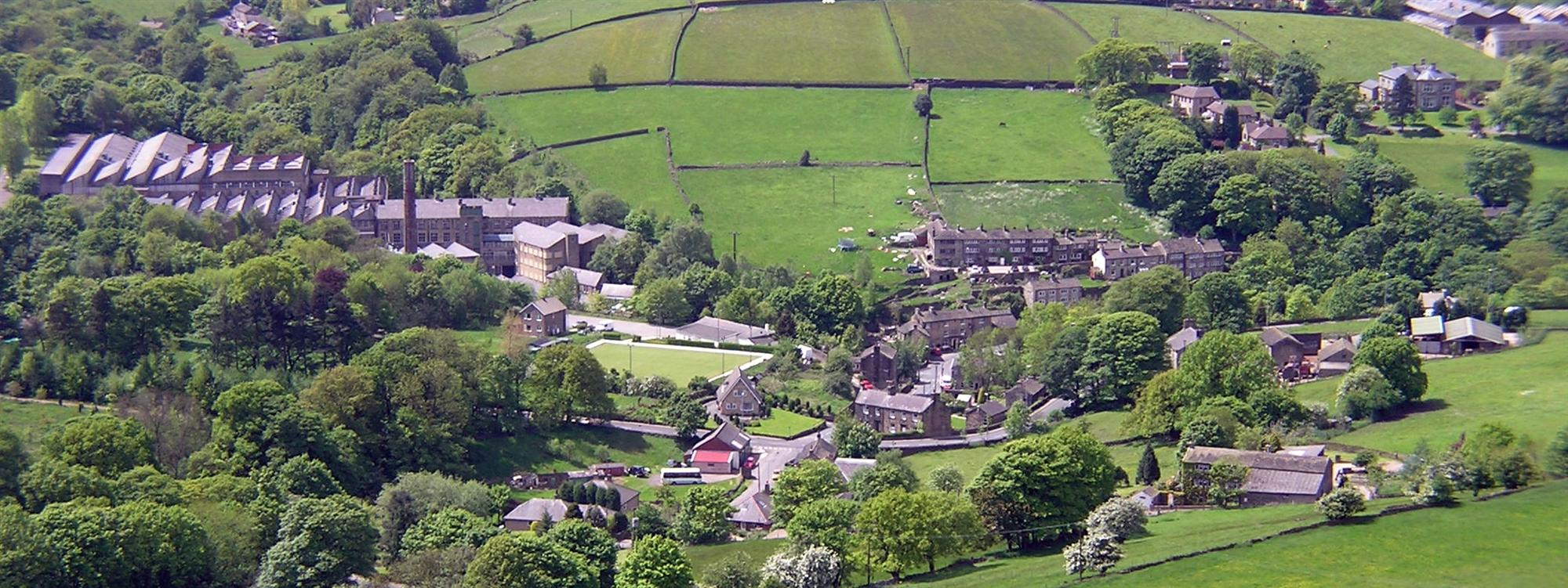 View from Tenter Hill of Jackson Bridge. Dobroyd Mill is shown to the left and below that the A616 Huddersfield to Penistone Road